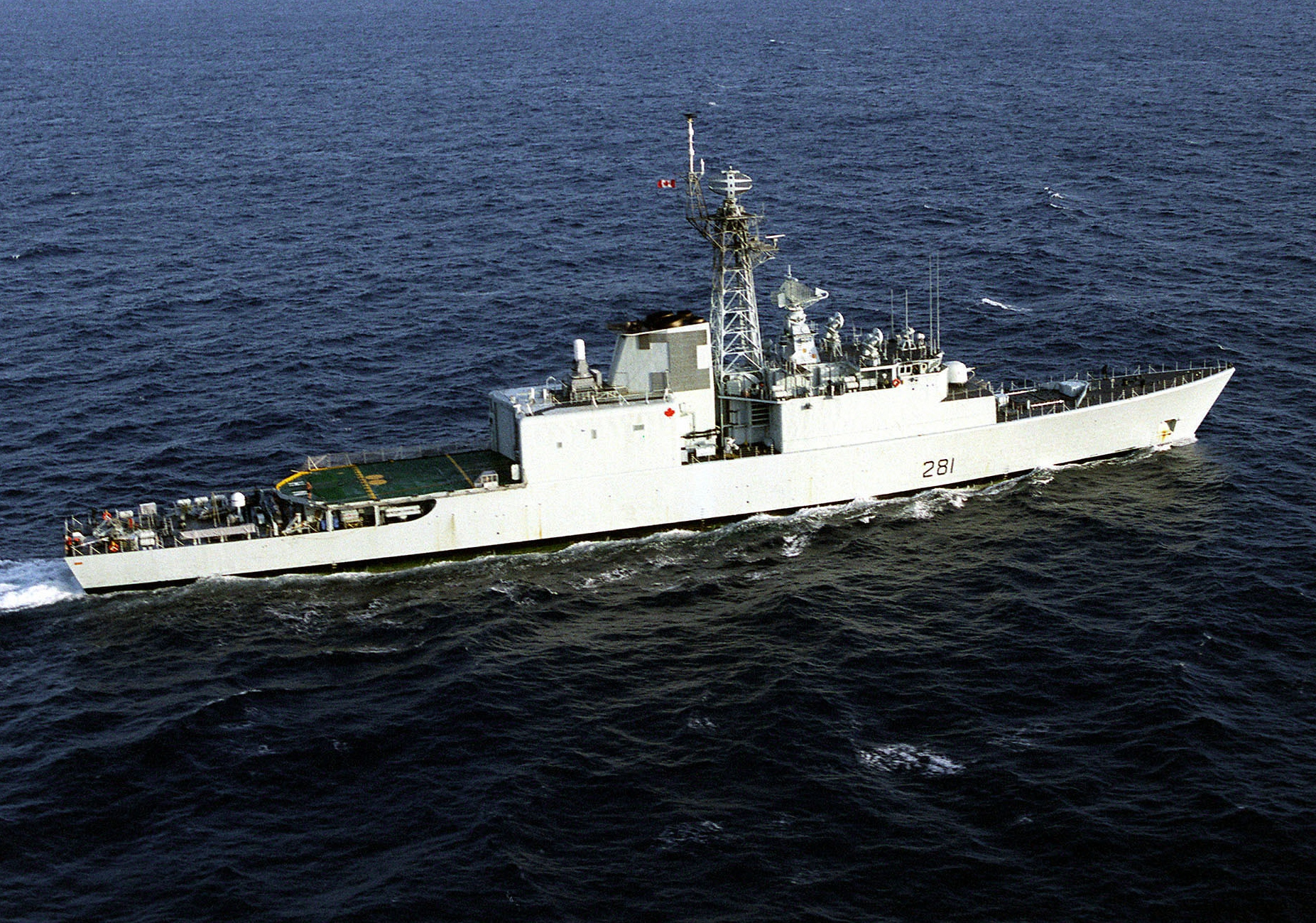 The Royal Canadian Navy destroyer HMCS Huron (DDG 281) as she returns to Hawaii (USA) at the end of exercise "RIMPAC '98".